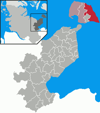 This map shows the area of the former Gemeinde (municipality) Bannesdorf auf Fehmarn in the Kreis (district) Ostholstein, Schleswig-Holstein, Germany.